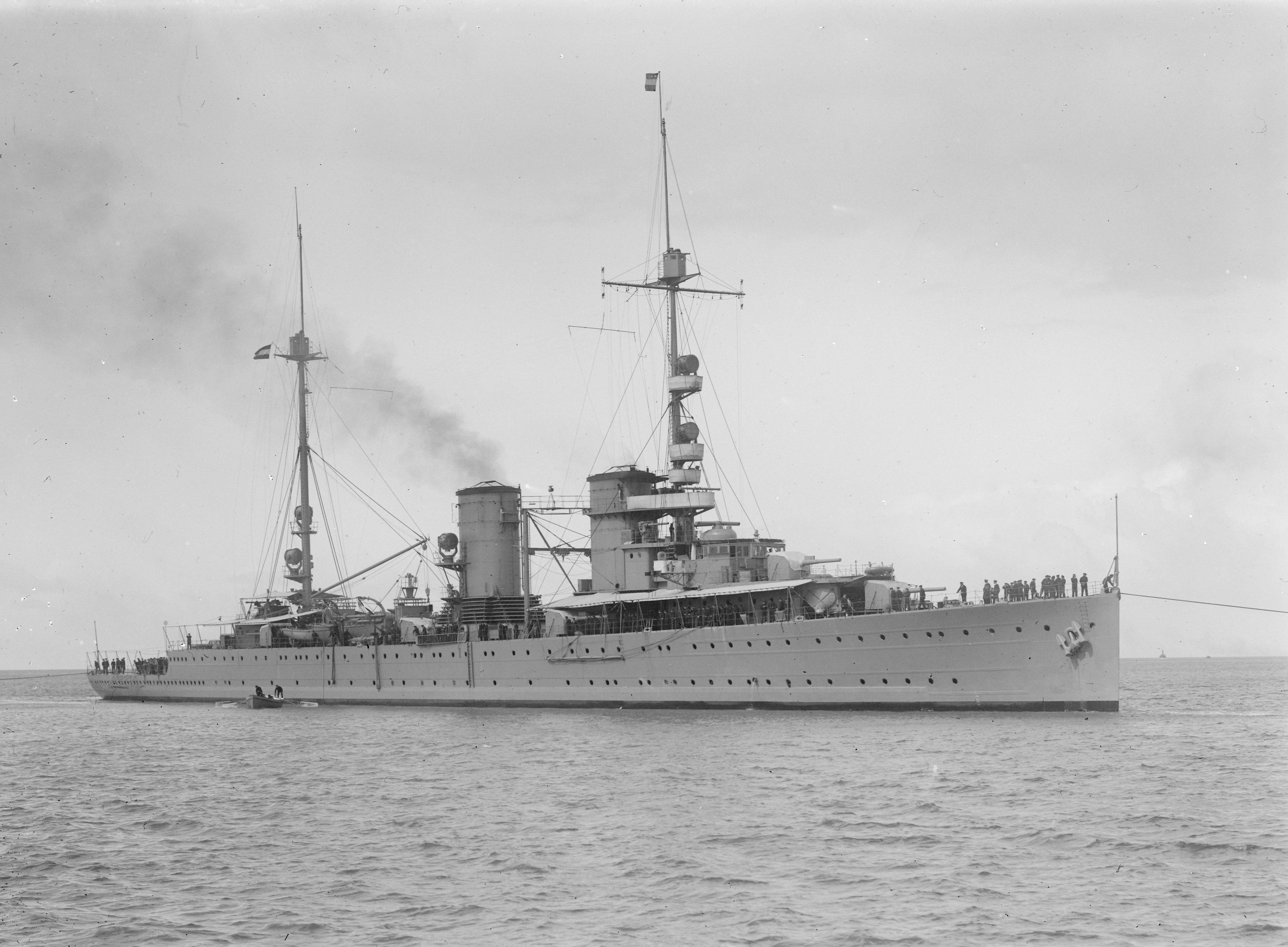 Dutch cruiser Java